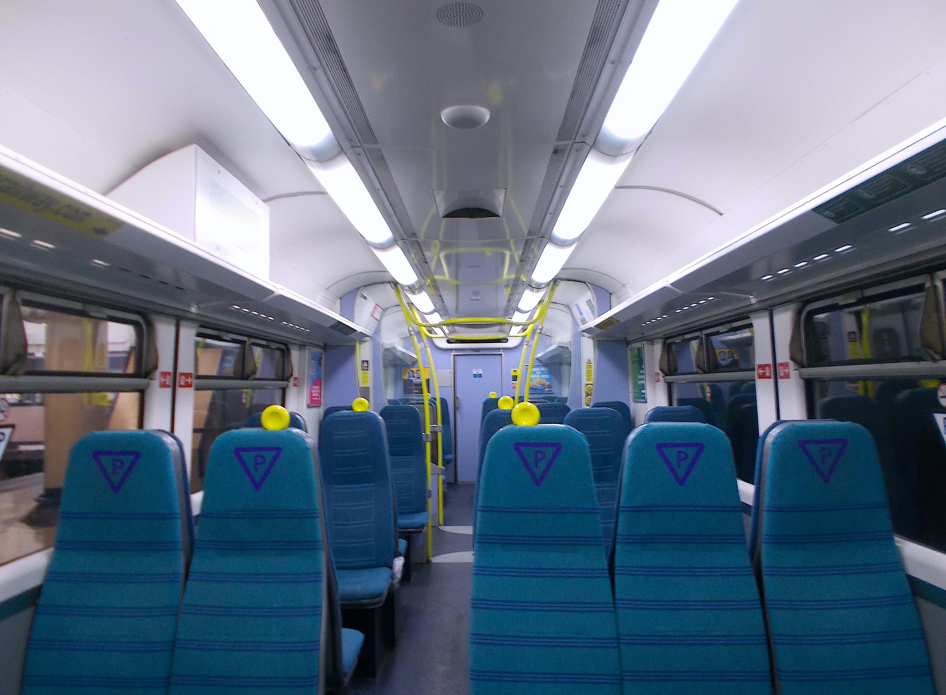 The interior of a DTSO vehicle from a Southern Railway refurbished Class 455/8